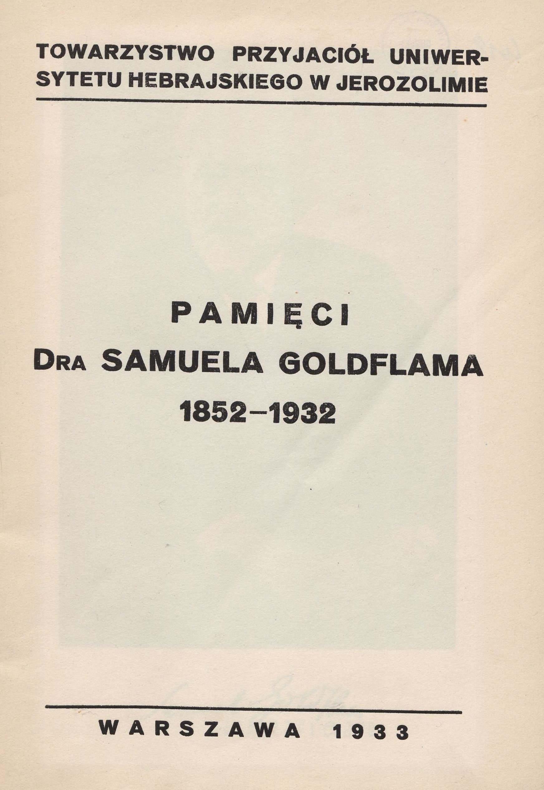 Title page of a commemorative publication for Samuel Goldflam, Polish neurologist